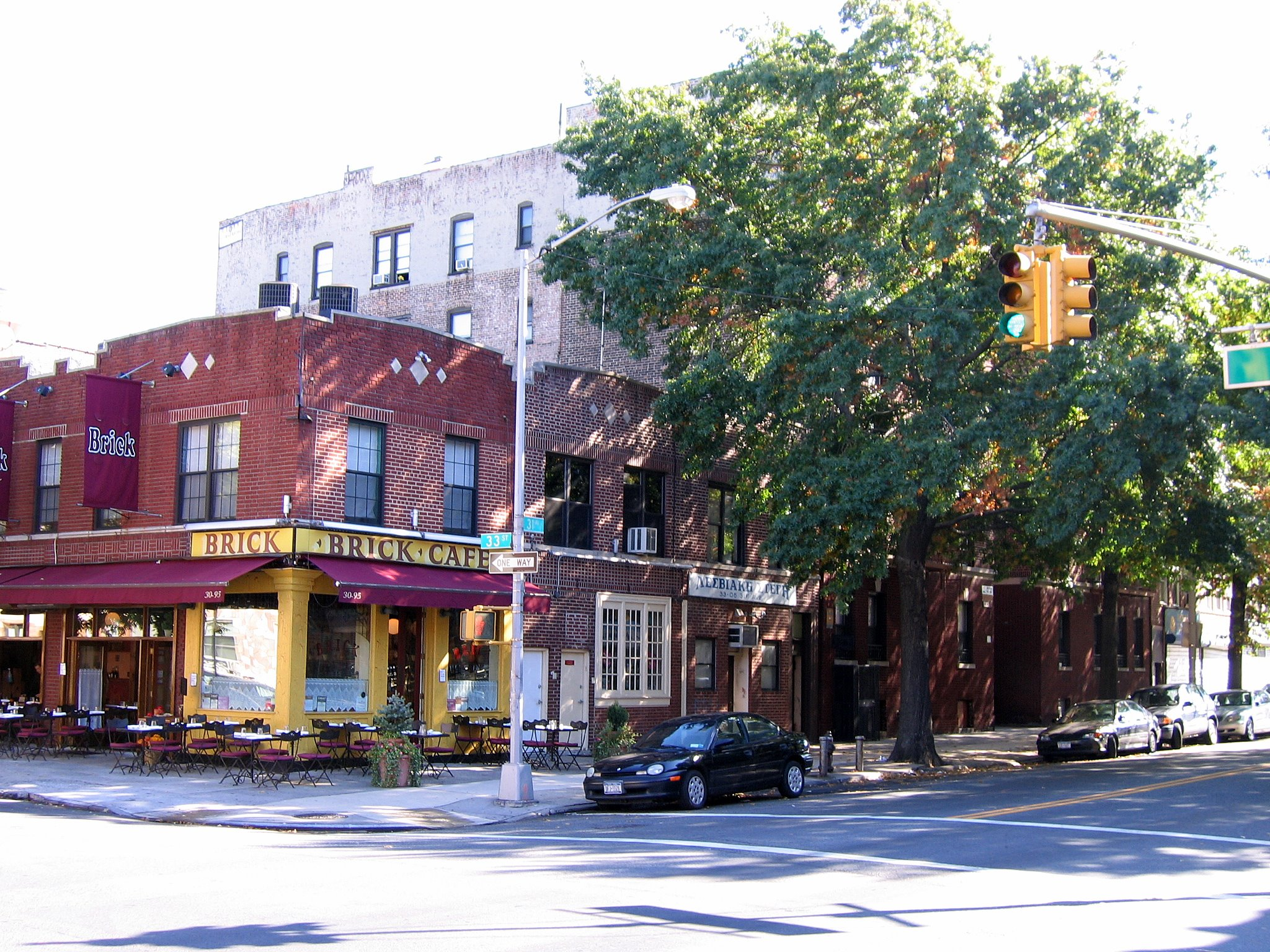 Astoria, Queens (corner of 31st Avenue and 33rd Street)